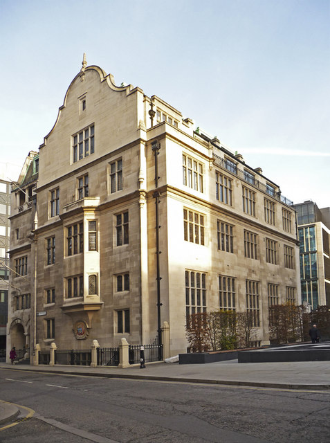 Chartered Insurance Institute Building, London EC2 This building is in Aldermanbury, opposite Aldermanbury Square.